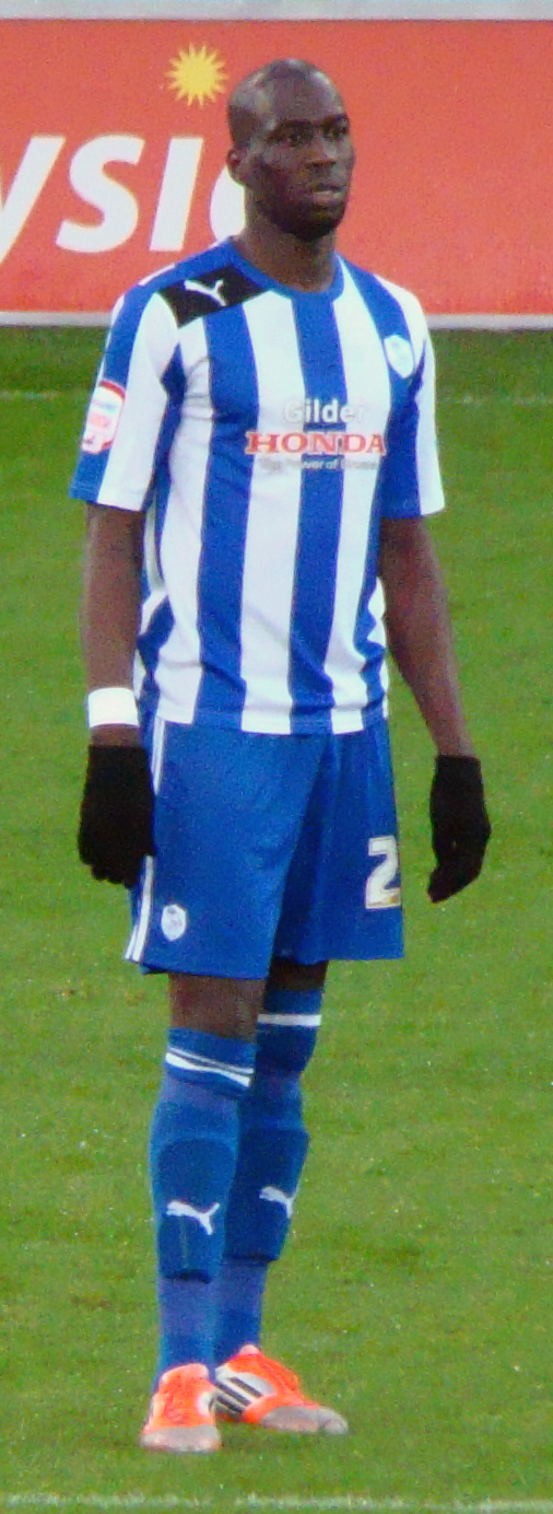 Mamady Sidibé. Image cropped from original at flickr.